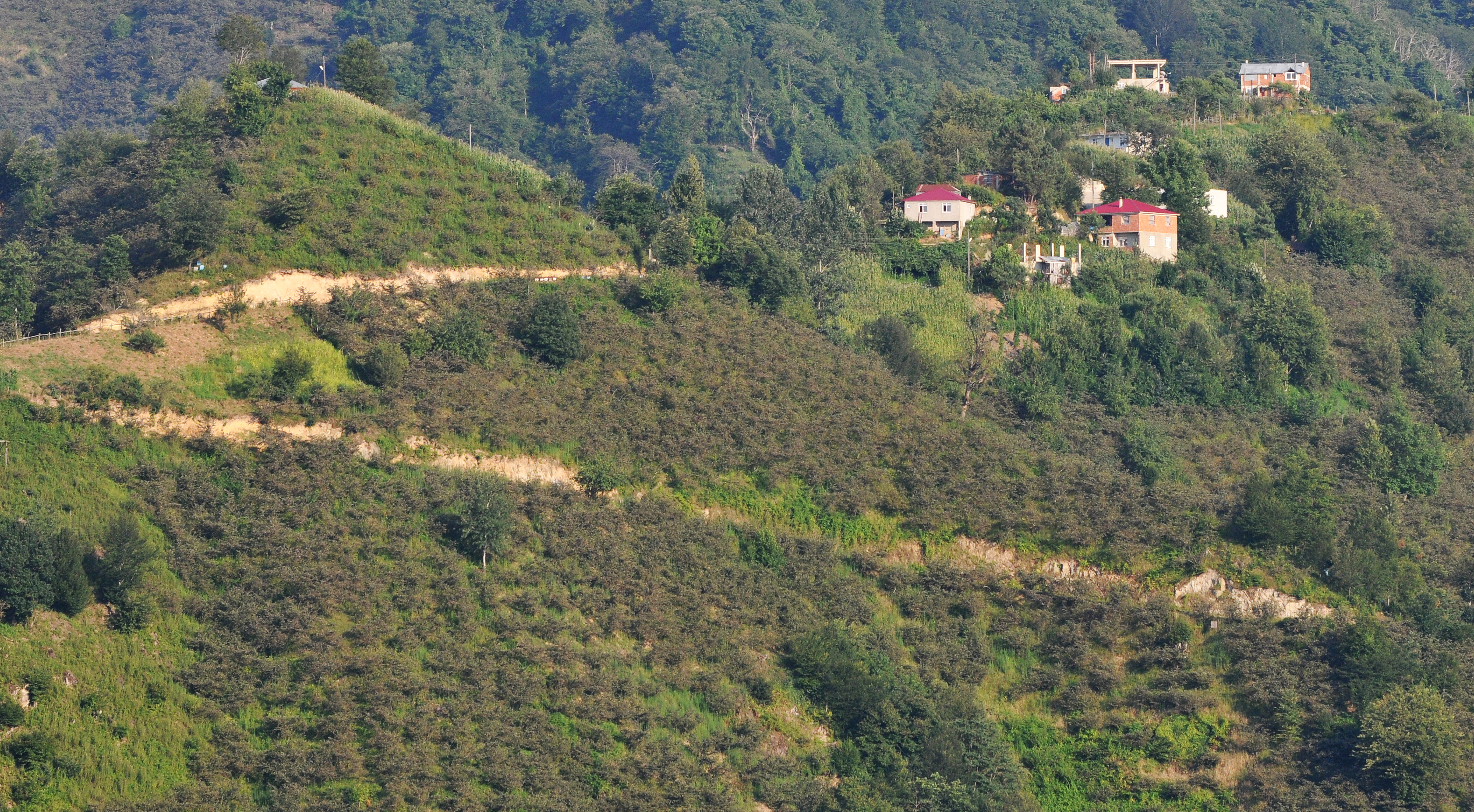 A typical cultivated hazelnut field in Espiye - Giresun, Turkey.